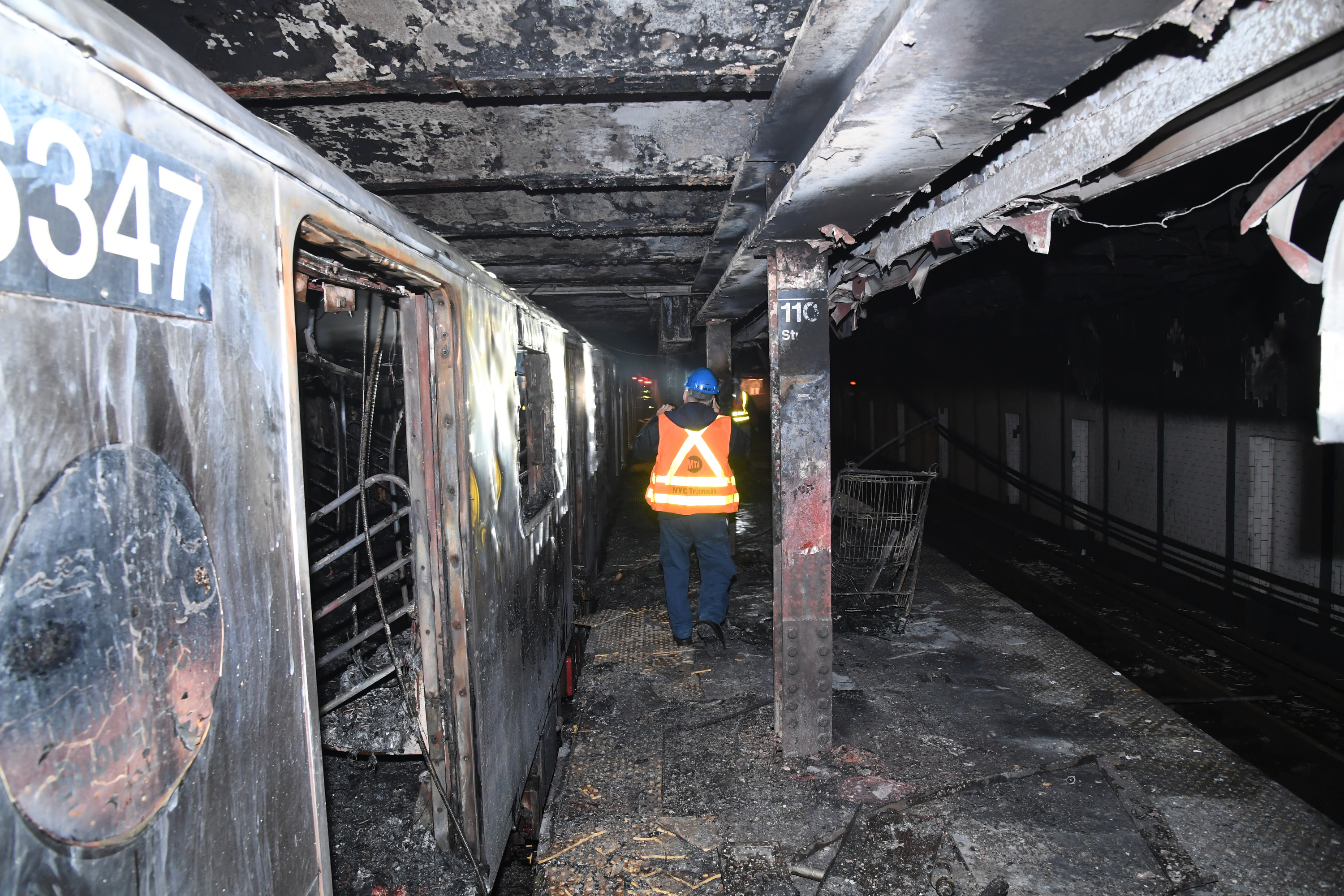 Emergency responders extinguished a fire aboard a train at the Central Park North-110 St Station that claimed the life of an MTA Train Operator on Fri., March 27, 2020. Photo: Marc A. Hermann / MTA New York City Transit